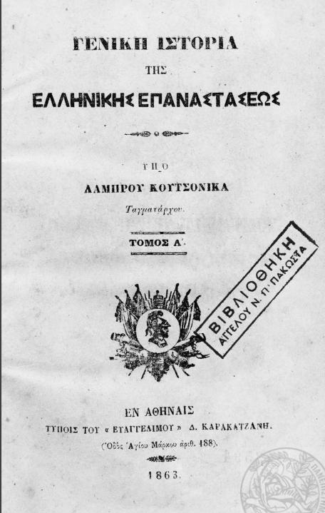 Title page of the book "General History of the Greek Revolution" by Lambros Koutsonikas, Athens 1863. Available online at